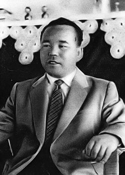 Saburo Odo